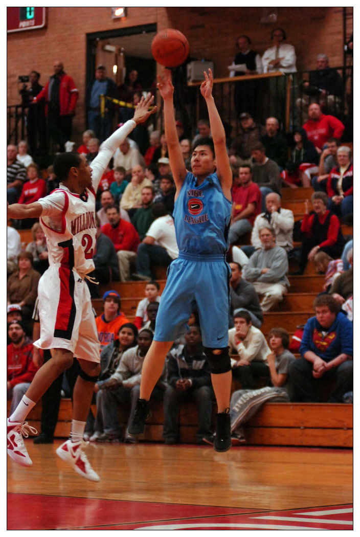 Culture Crossover - Nanyang Model High School visited Cathedra High School - 1.13.2012